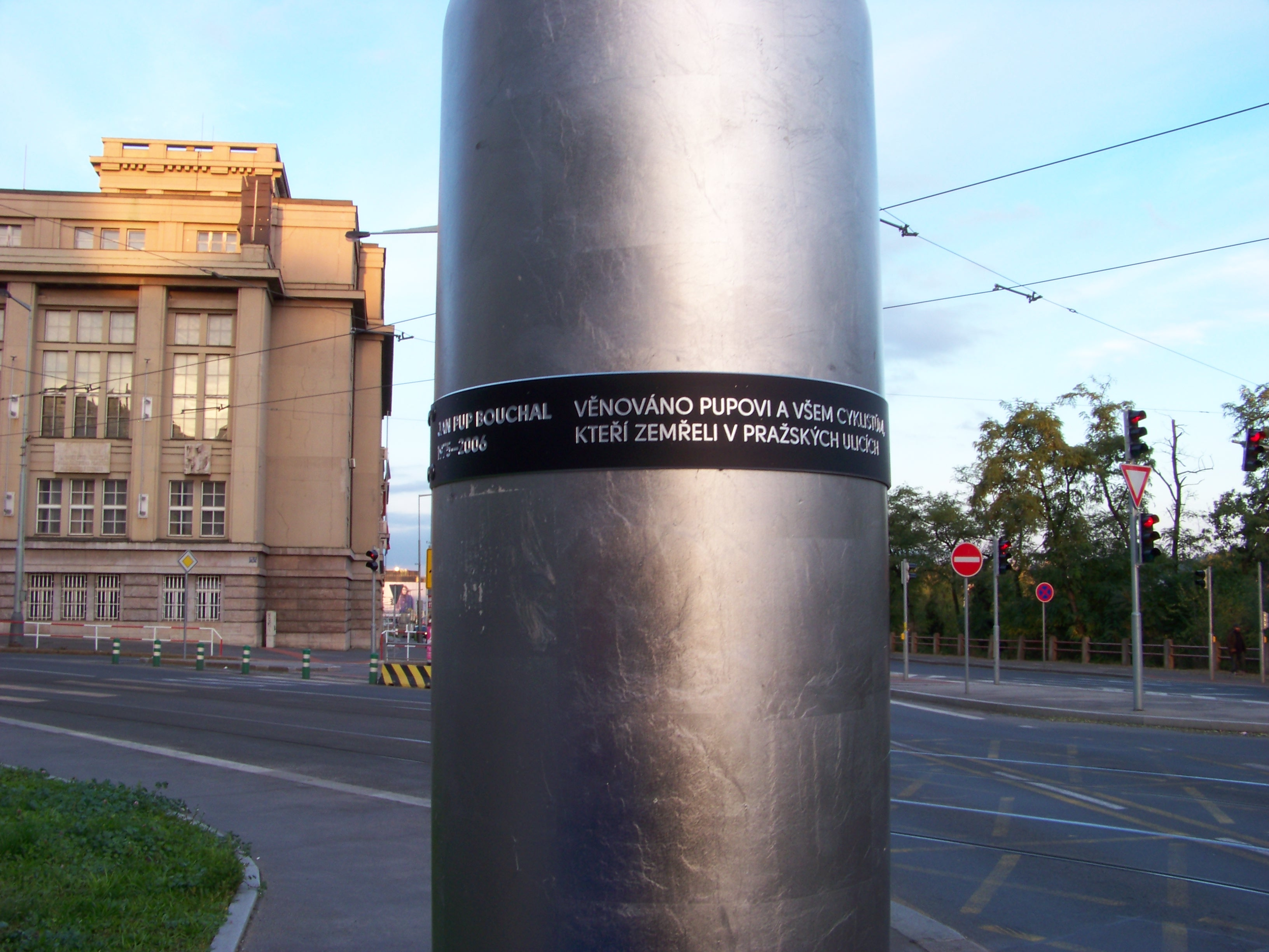 Prague-Holešovice, Czech Republic. Nábřeží Kapitána Jaroše, Krištof Kintera: Bike to Heaven, a monument to Jan Bouchal.